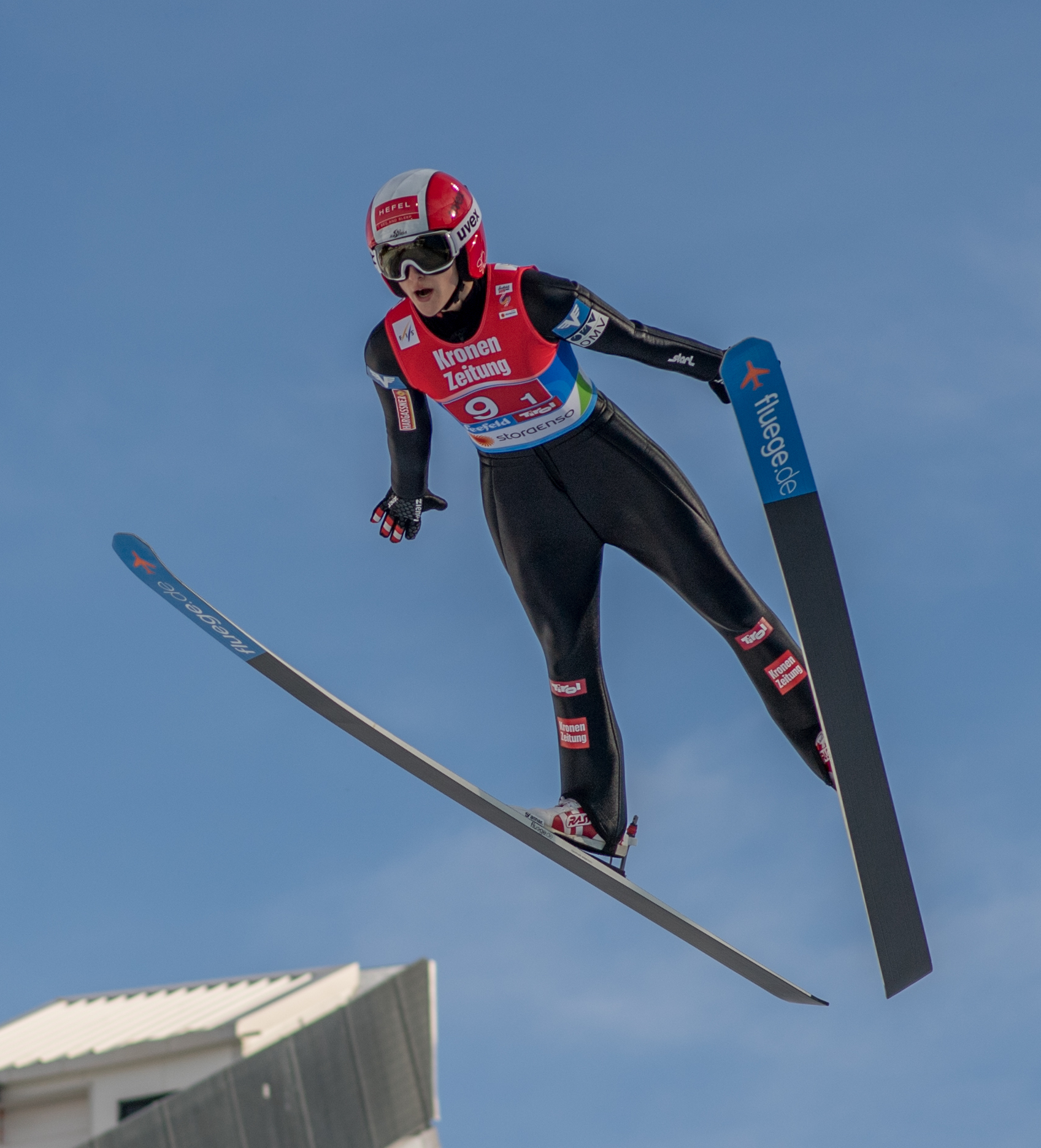 Seefeld, February 26, 2019: FIS Nordic World Ski Championships, Ski Jumping Ladies Normal Hill Team.